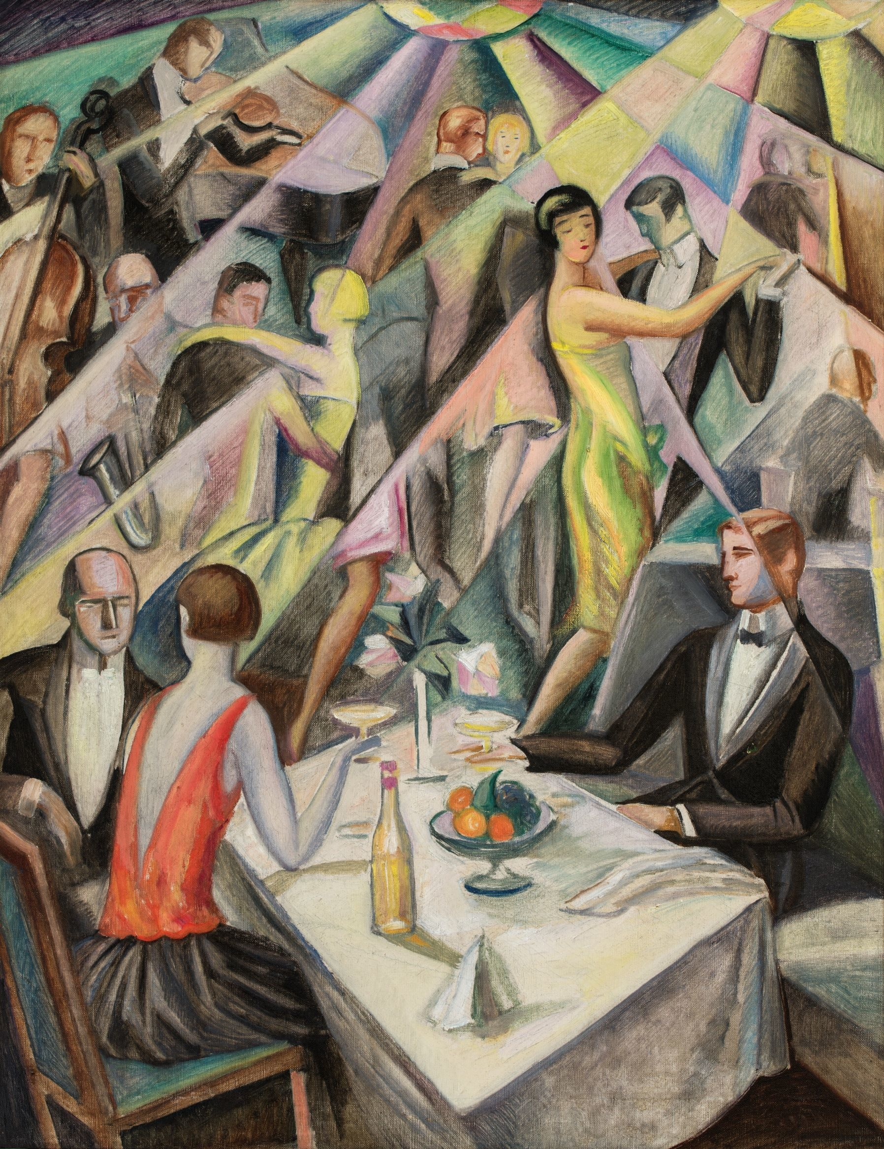 Dancing